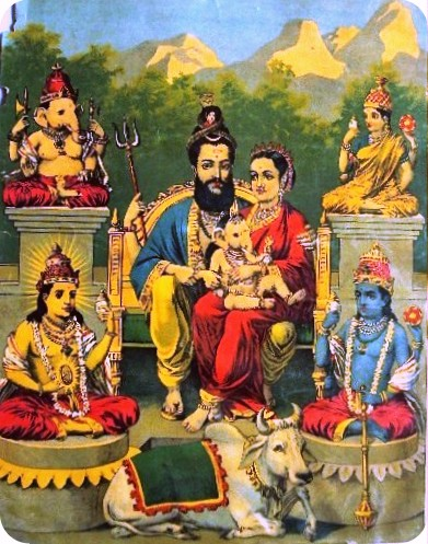 Traditional Indian Print by Artist Raja Ravi Varma Raja Ravi Varma (1848-1906) was born in Kilimanoor Palace as the son of Umamba Thampuratti and Neelakandan Bhattathiripad. At the age of seven years he started drawing on the palace walls using charcoal. His uncle Raja Raja Varma noticed the talent of the child and gave preliminary lessons on painting. At the age of 14, Ayilyam Thirunal Maharaja took him to Travancore Palace and he was taught water painting by the palace painter Rama Swami Naidu. After 3 years Theodore Jenson, a British painter taught him oil painting. Most of his paintings are based on Hindu epic stories and characters. In 1873 he won the First Prize at the Madras Painting Exhibition. He became a world famous Indian painter after winning in 1873 Vienna Exhibition. This is print of the original work of theartist Raja Ravi Varma. He was the first Indian artist who has got the international fame in those days. The subject of thepiece is goddess SHIVA FAMILY. The condition of the piece is ok. This is an old print , printed in Ravi Varma press itself.Ravi Varma had his own press which is in Lonawala which is nearby to Mumbai. This is around 50-60 year old print.